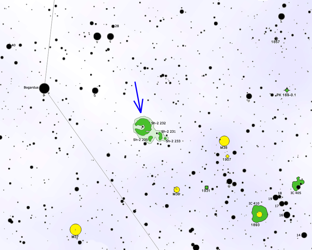 Map of Sh-2 235